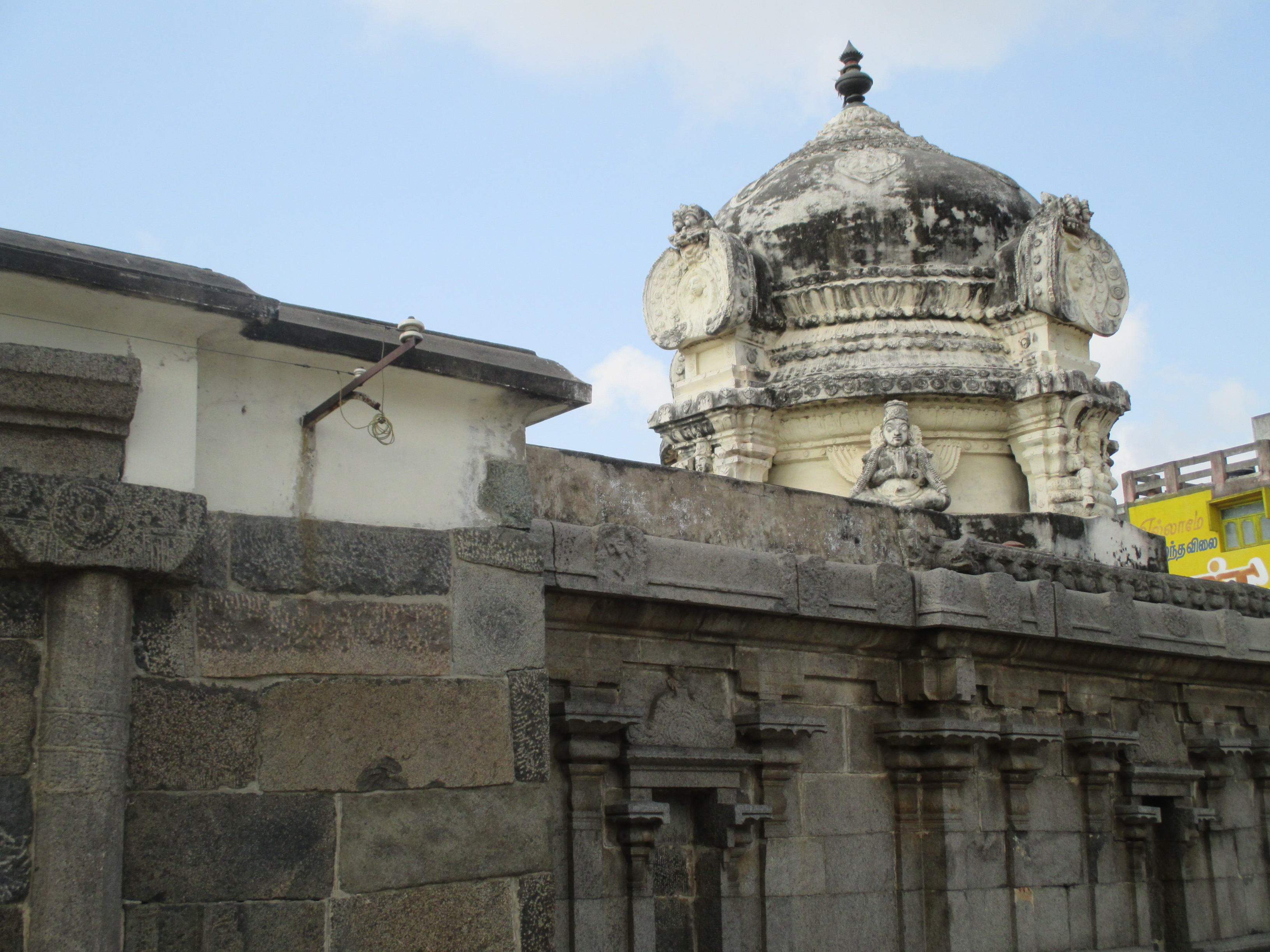 Vaikunda Perumal Temple, Uthiramerur